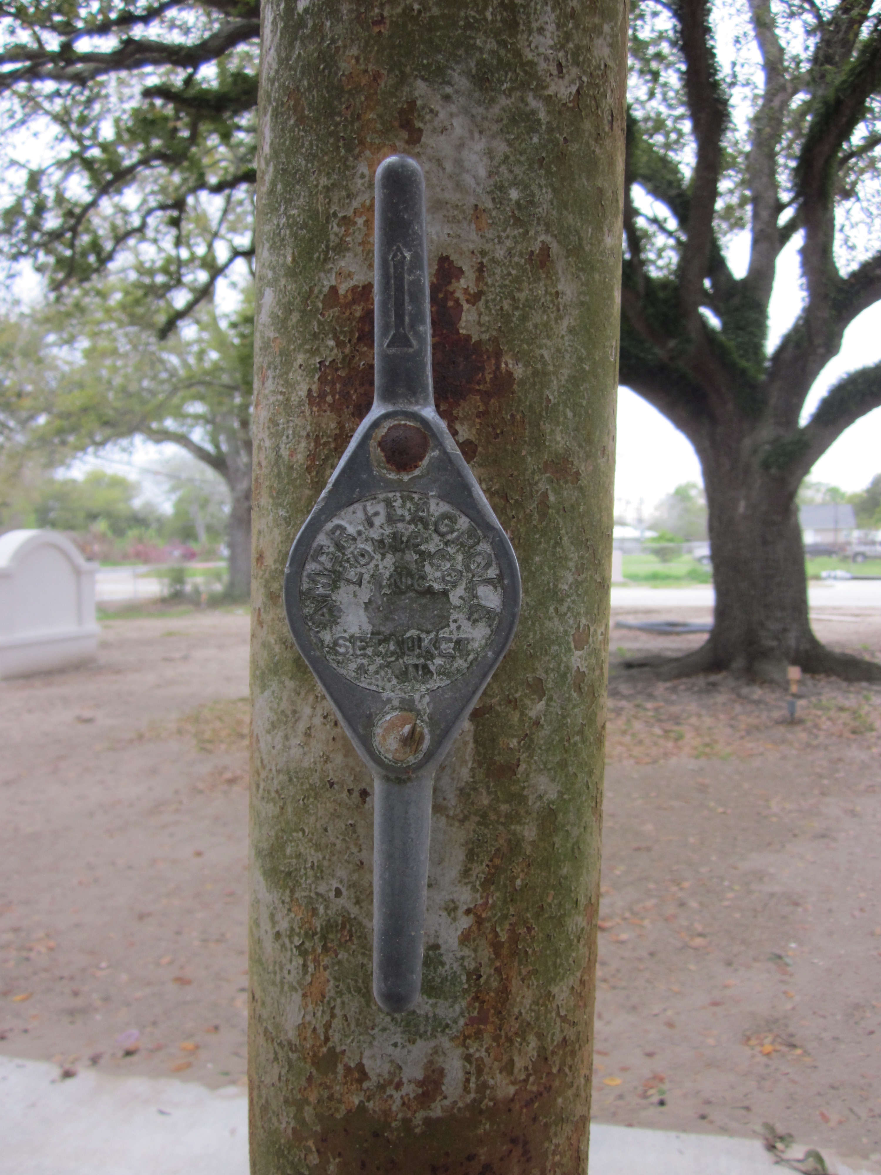 St. Bernard, Louisiana. Old St. Bernard Parish Courthouse building, later housed Beauregard High School. Vacant since flood damage in the Hurricane Katrina flood disaster of 2005; restoration nearing completion more than 6 years later. Flagpole detail.